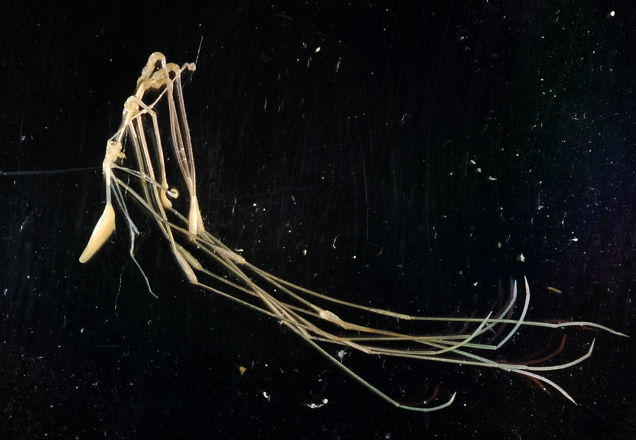 PRESERVED_SPECIMEN; Rhopalorhynchus filipes Stock, 1991 ; Type status: PARATYPE; Identified by: Stock; Individual Count: 1 ; Event date: 1986-10-12T18:10:00Z